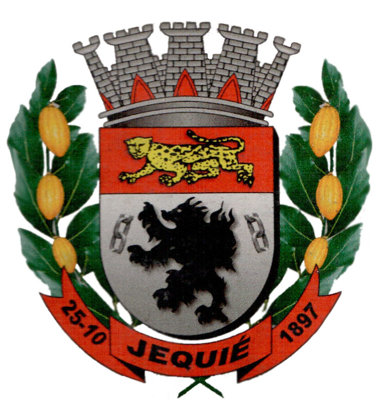 Coat of Arms of Jequié City - Bahia